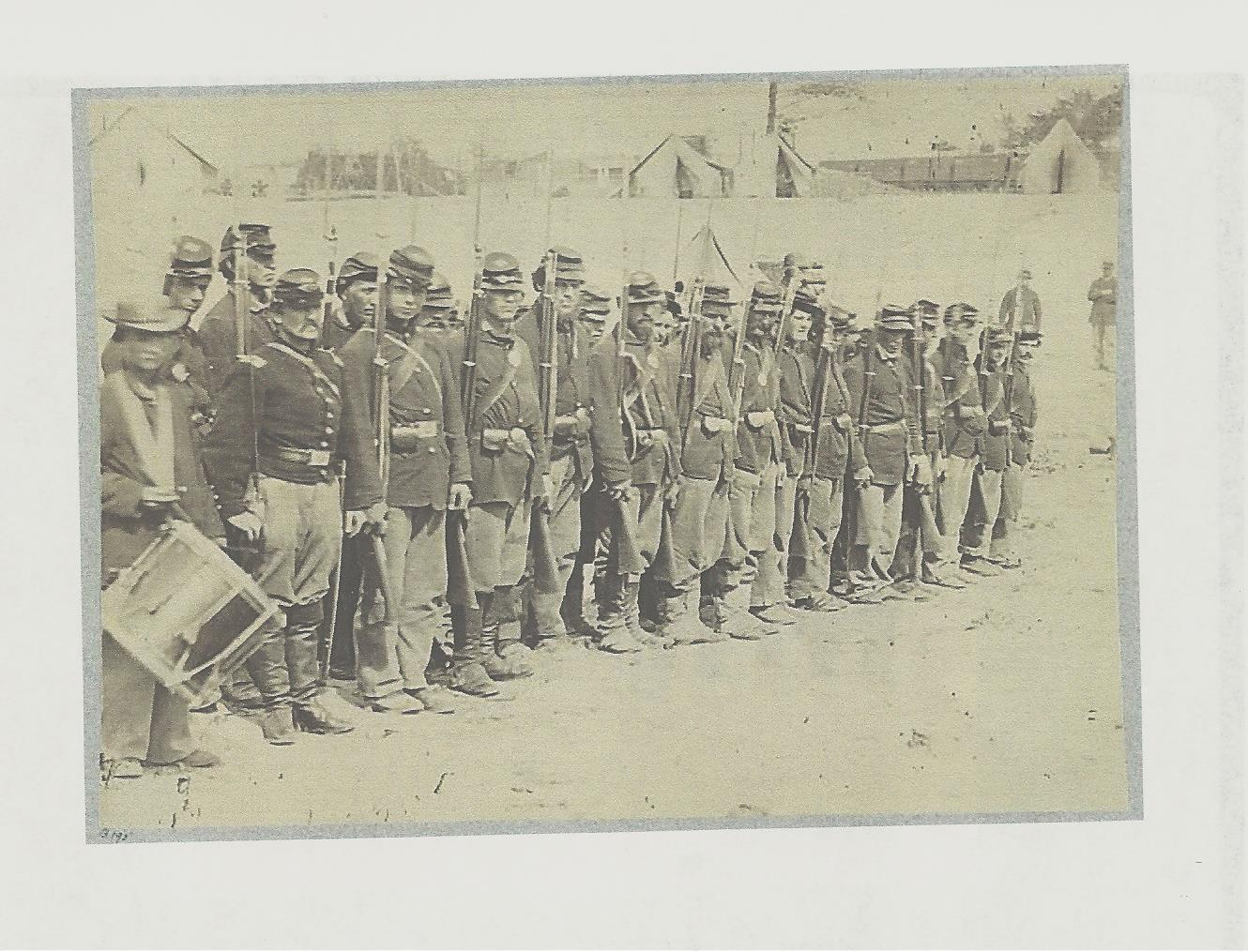 "Co C 110th Pennsylvania Infantry after the Battle of Fredericksburg" Possibly part of a series of pictures taken on the 110th PA Infantry by Andrew J. Russell, April 24, 1863